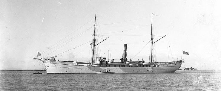 A cropped photograph of the USS Albatross in San Francisco Bay, circa 1902. The USS Camanche is visible in the background. Original found at